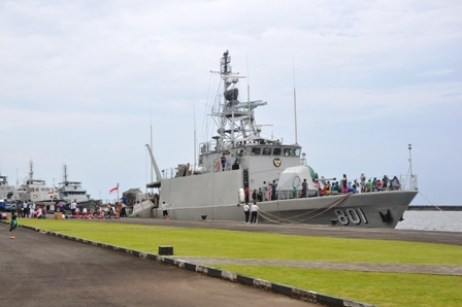 KRI Pandrong of the Indonesian Navy